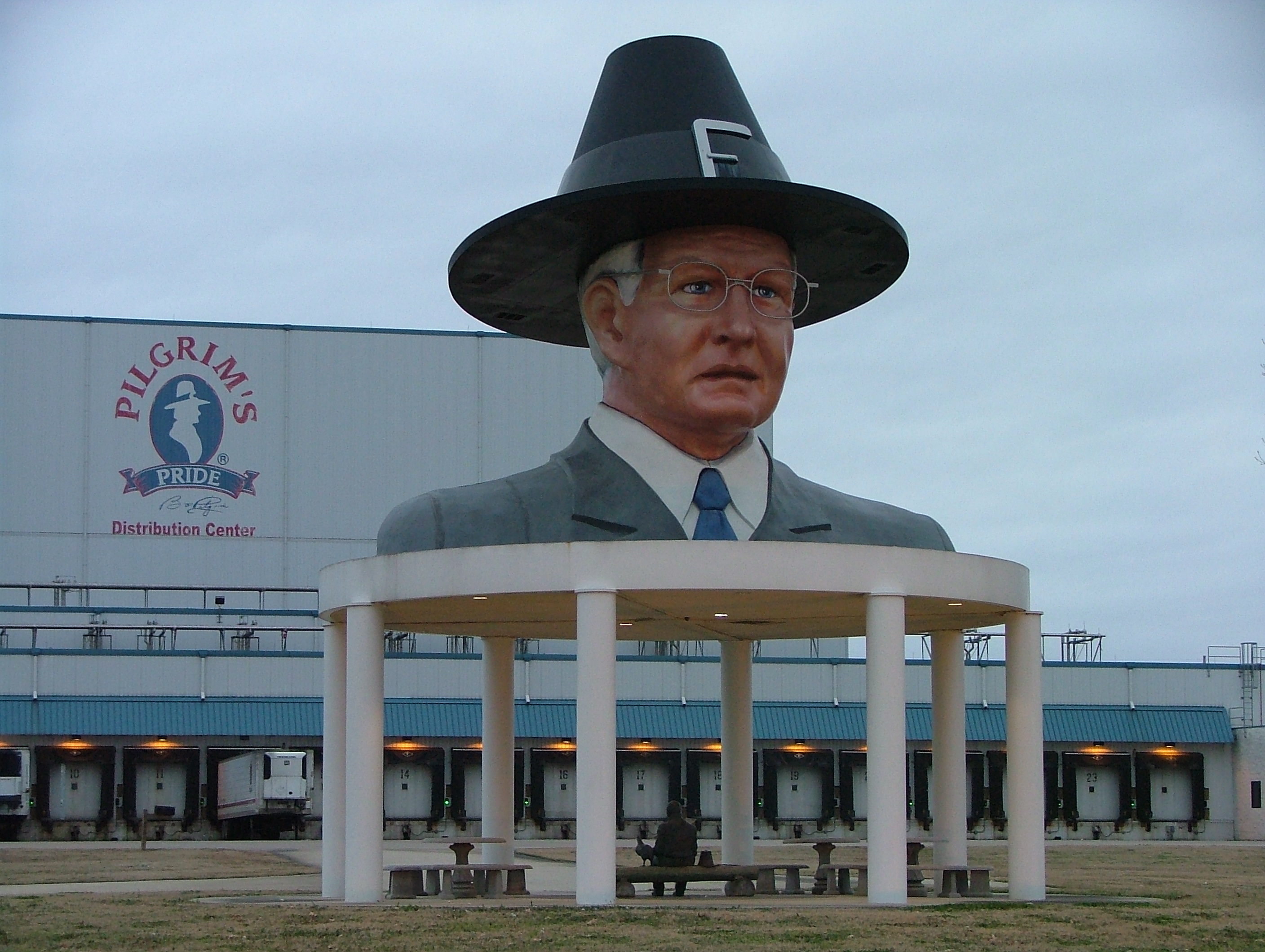 Bo Pilgrim statue at Pilgrim's Pride distruibution center in Pittsburg, Texas